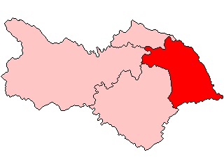 Scarborough & Whitby Parliamentary Constituency 1918-1948, shown with The North Riding of Yorkshire.